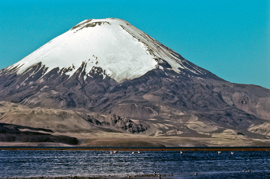 The Parinacota volcano towering over the Chungara Lake. Parina means Flamingo in the ancient Kunza language.